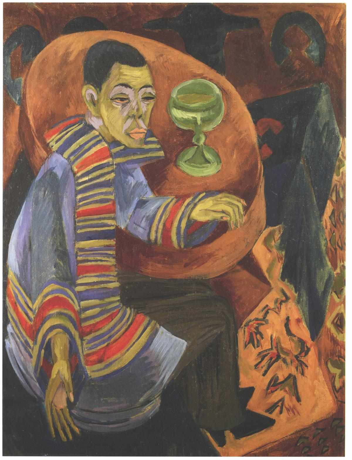 The drinker - selfportrait